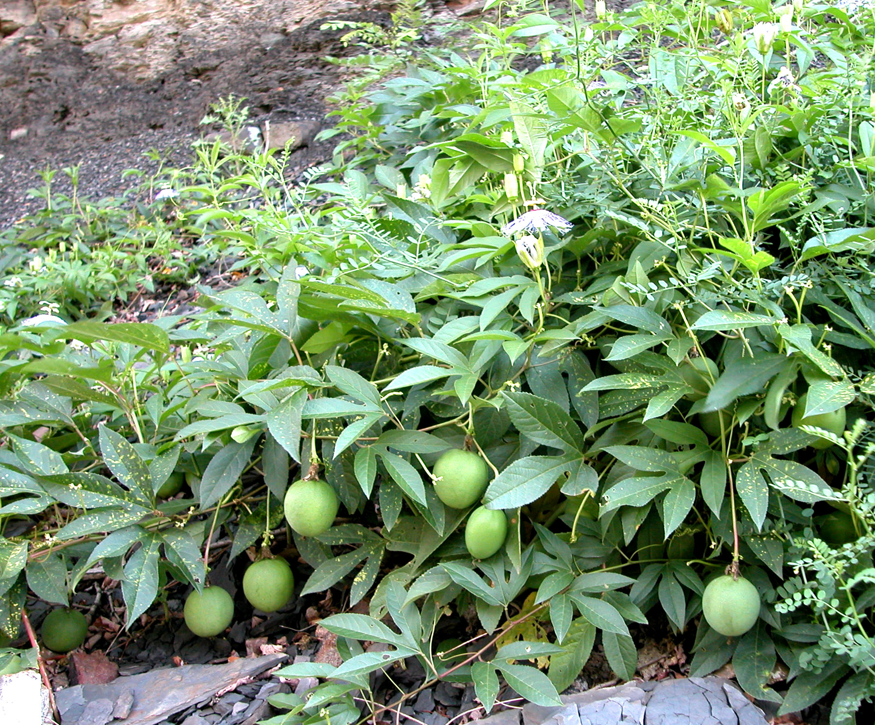 Passiflora incarnata, fruit at mid-summer Image copyleft: Image taken by me, released under GFDL, Pollinator 06:36, 23 February 2006 (UTC)